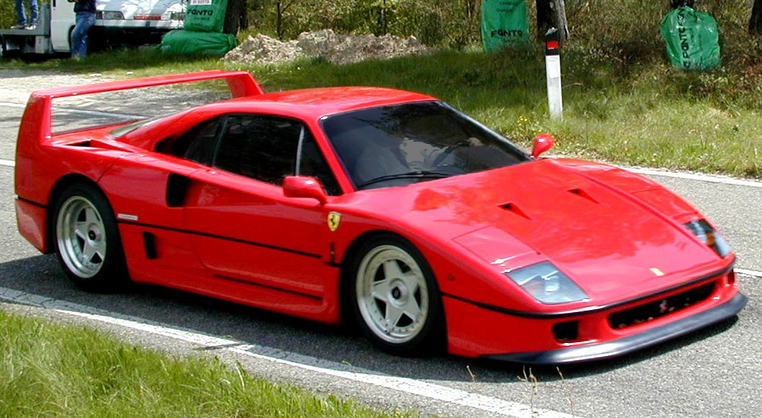 This is a modified version of Image:Ferrari F40.JPG in which I, User:Executioner, using Adobe Photoshop, only tinted the front and side windows of the car.